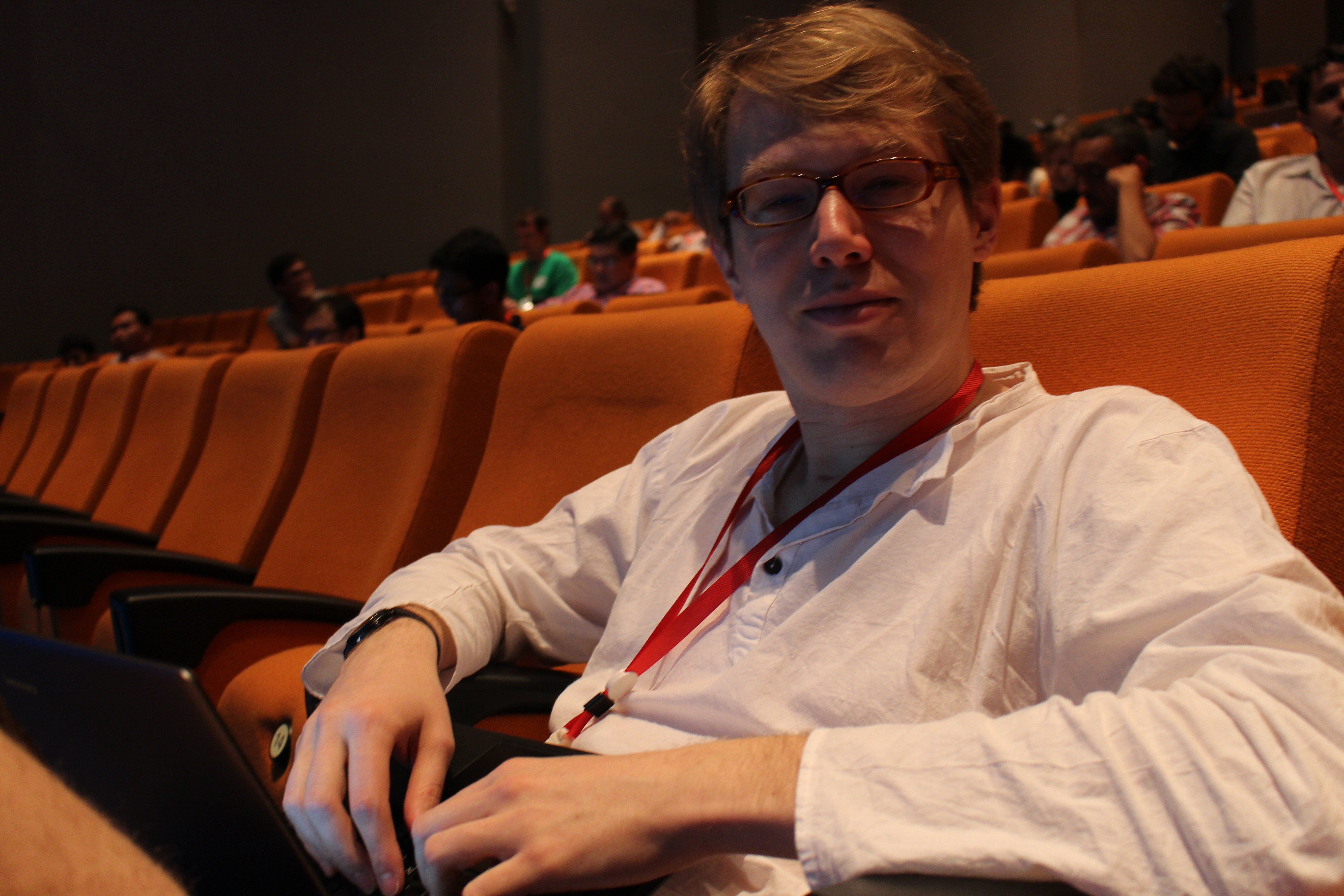 Lennart Poettering at FOSSASIA 2015 (Free and Open Source Summit Asia), Singapore, 13 March 2015.